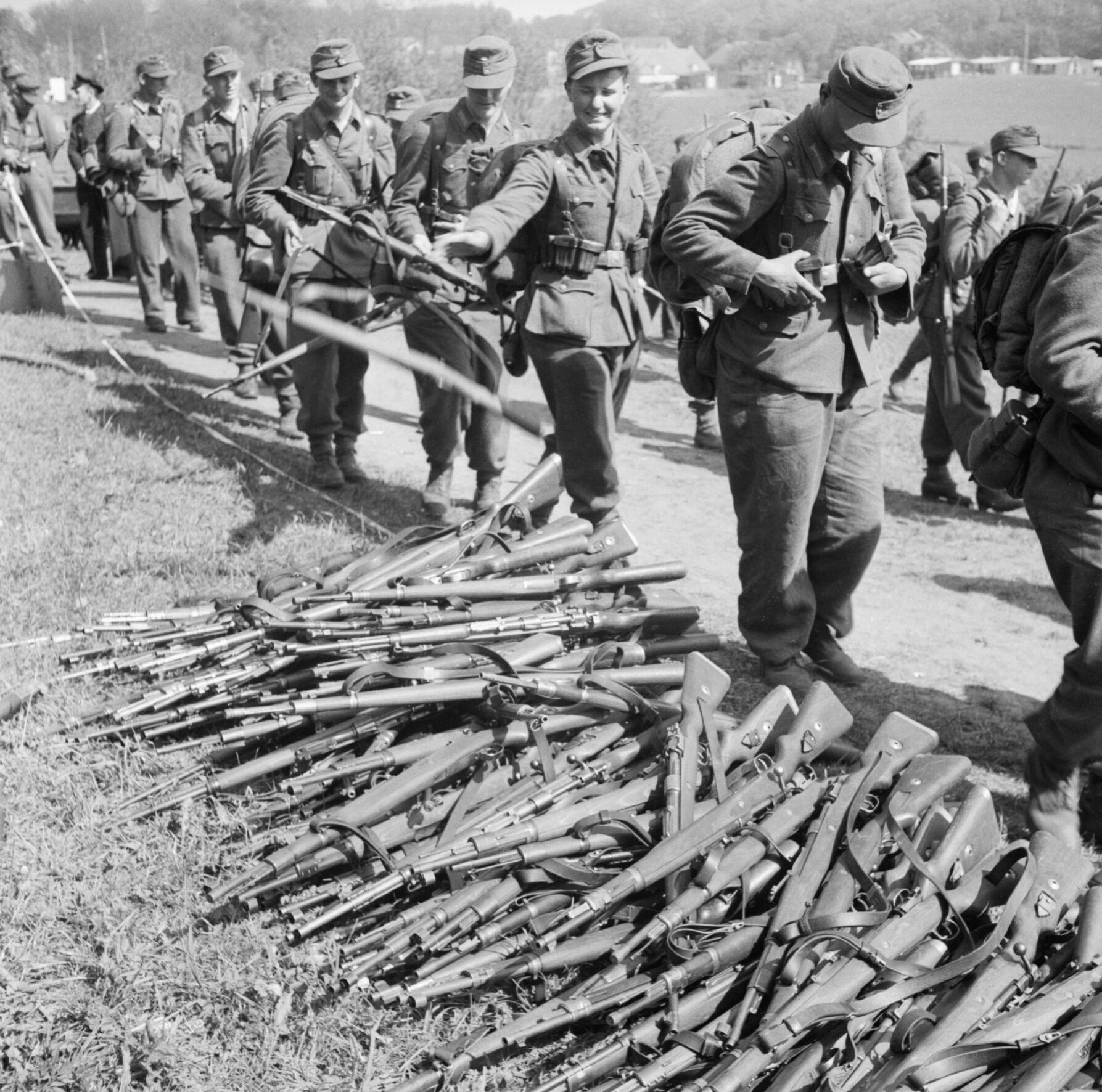 The Disarming of German Troops Crossing the Danish Border Into Germany German soldiers give up their weapons at the frontier post of Krusau.